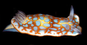 Photo of oblique right side view of Felimida cf. clenchi. Determined by Vinicius Padula (1 November 2016)[1] sensu the new color concept.[2] ↑ accessed 1 November 2016 ↑ Padula V., Bahia J., Stöger I., Camacho-García Y., Malaquias M. A. E., Cervera J. L. & Schrödl M. (2016). "A test of color-based taxonomy in nudibranchs: Molecular phylogeny and species delimitation of the Felimida clenchi (Mollusca: Chromodorididae) species complex". Molecular Phylogenetics and Evolution 103: 215-229.